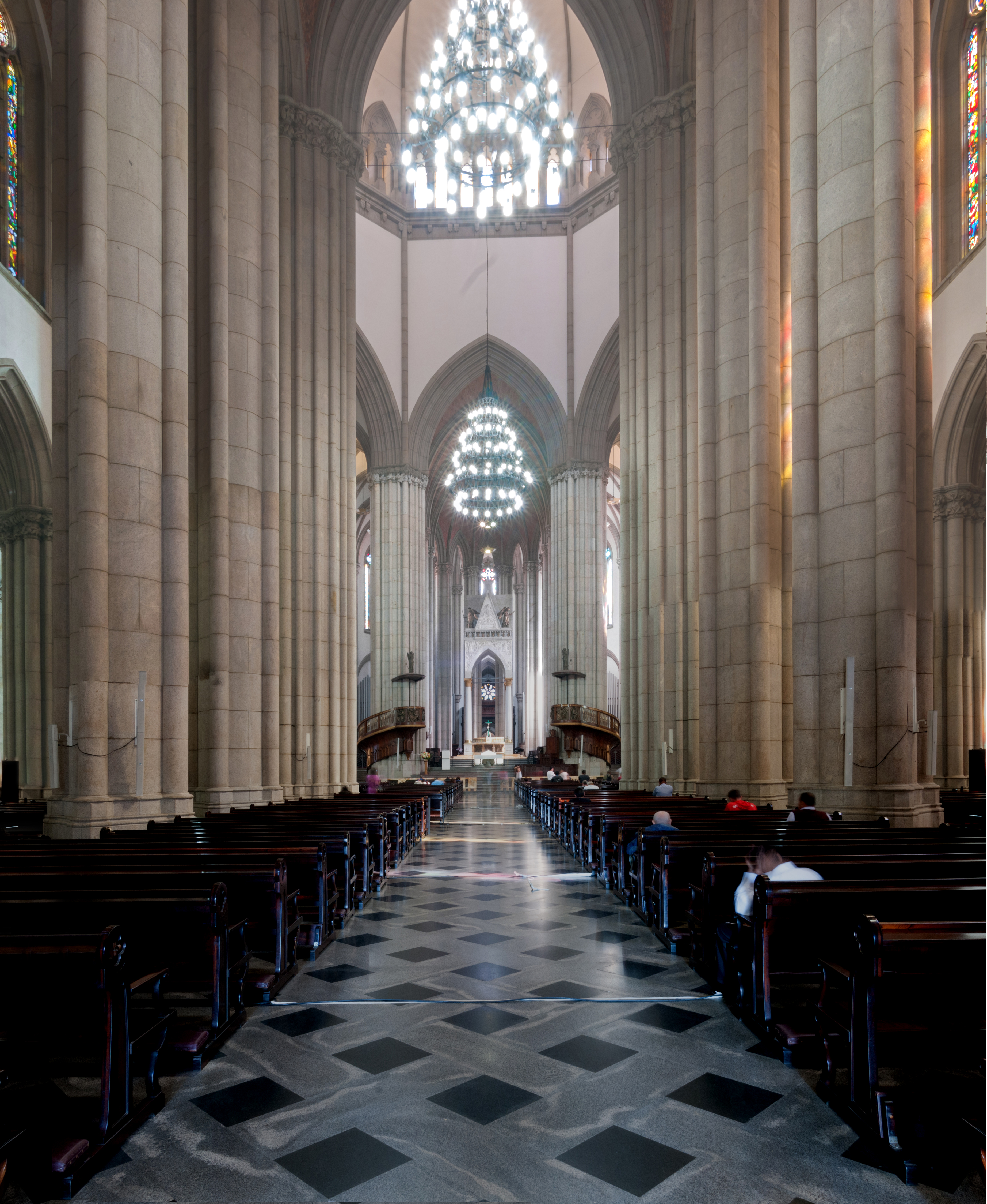 Catedral da Sé of São Paulo City (Interior)